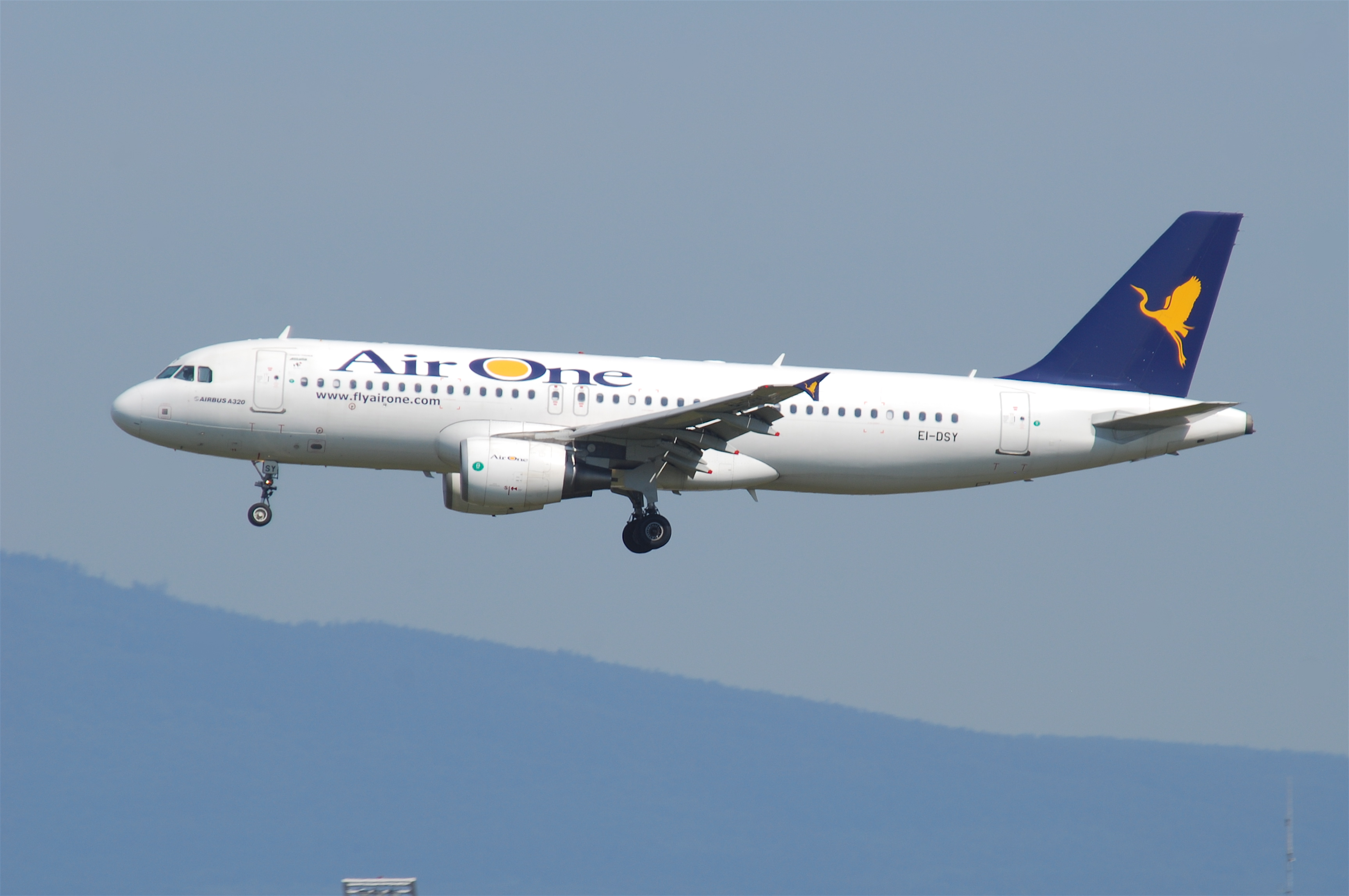 Air One Airbus A320-216; EI-DSY@FRA;16.07.2011/609by